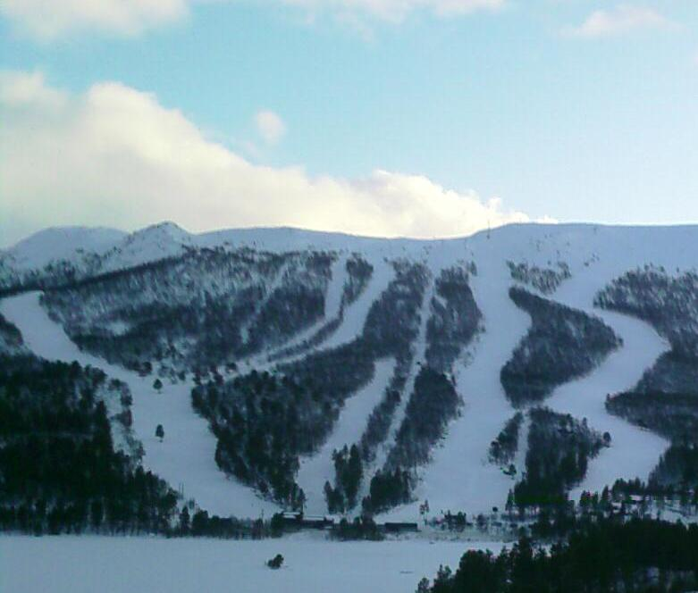 Hallingskarvet skisenter, alpine skiing facilities in Hol, Norway.